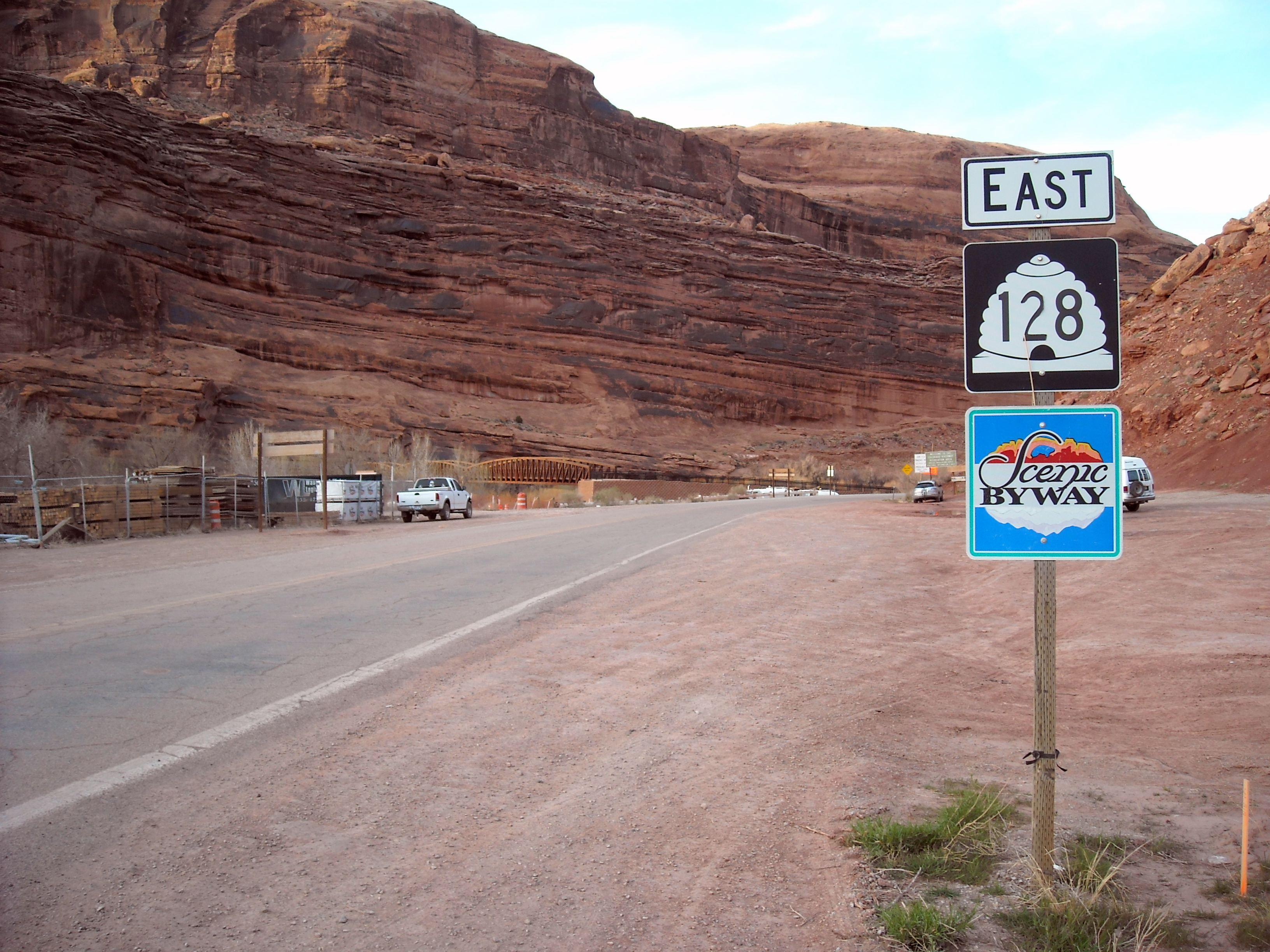 Utah State Route 128 right after its western terminus